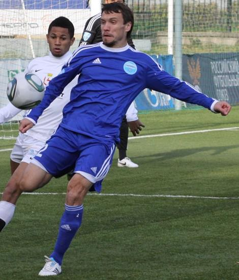 Ivan Yershov with FC Chernomorets Novorossiysk.